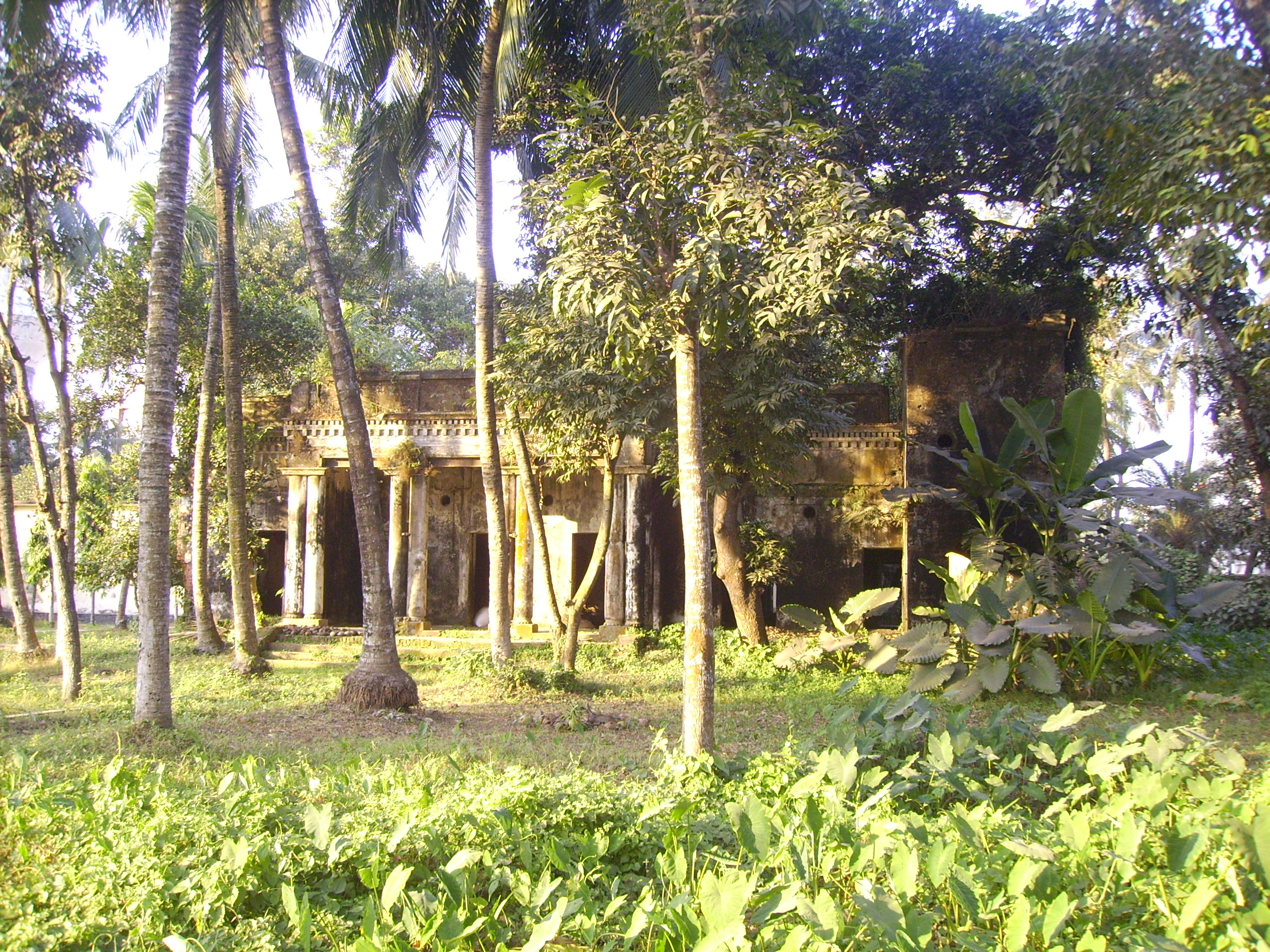 Sachin's abandoned house in Comilla, Bangladesh as of February 2006.